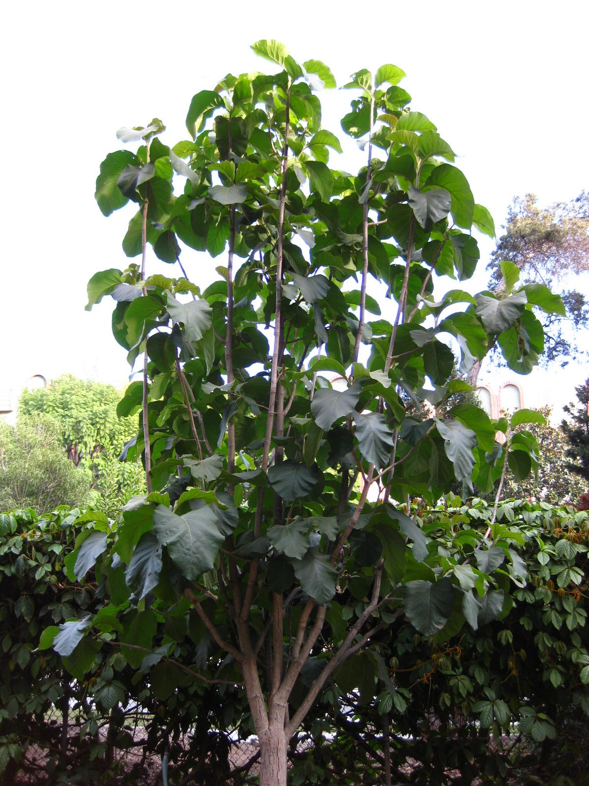 Photographed at Mildred E. Mathias Botanical Garden at UCLA, Westwood, (Los Angeles, California) - in November.